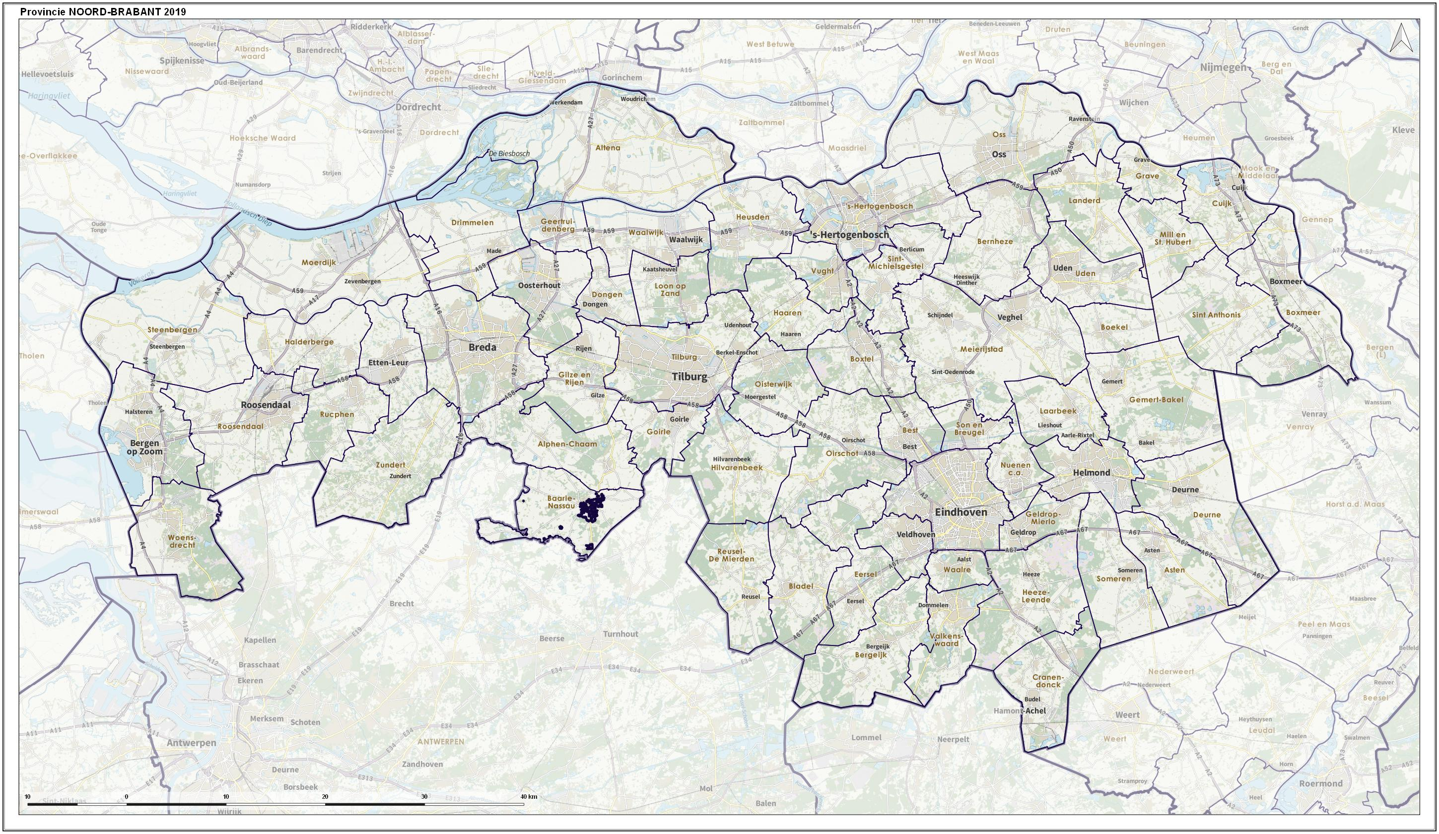 Overview map of the province, including municipal borders, largest places and major infrastructure.